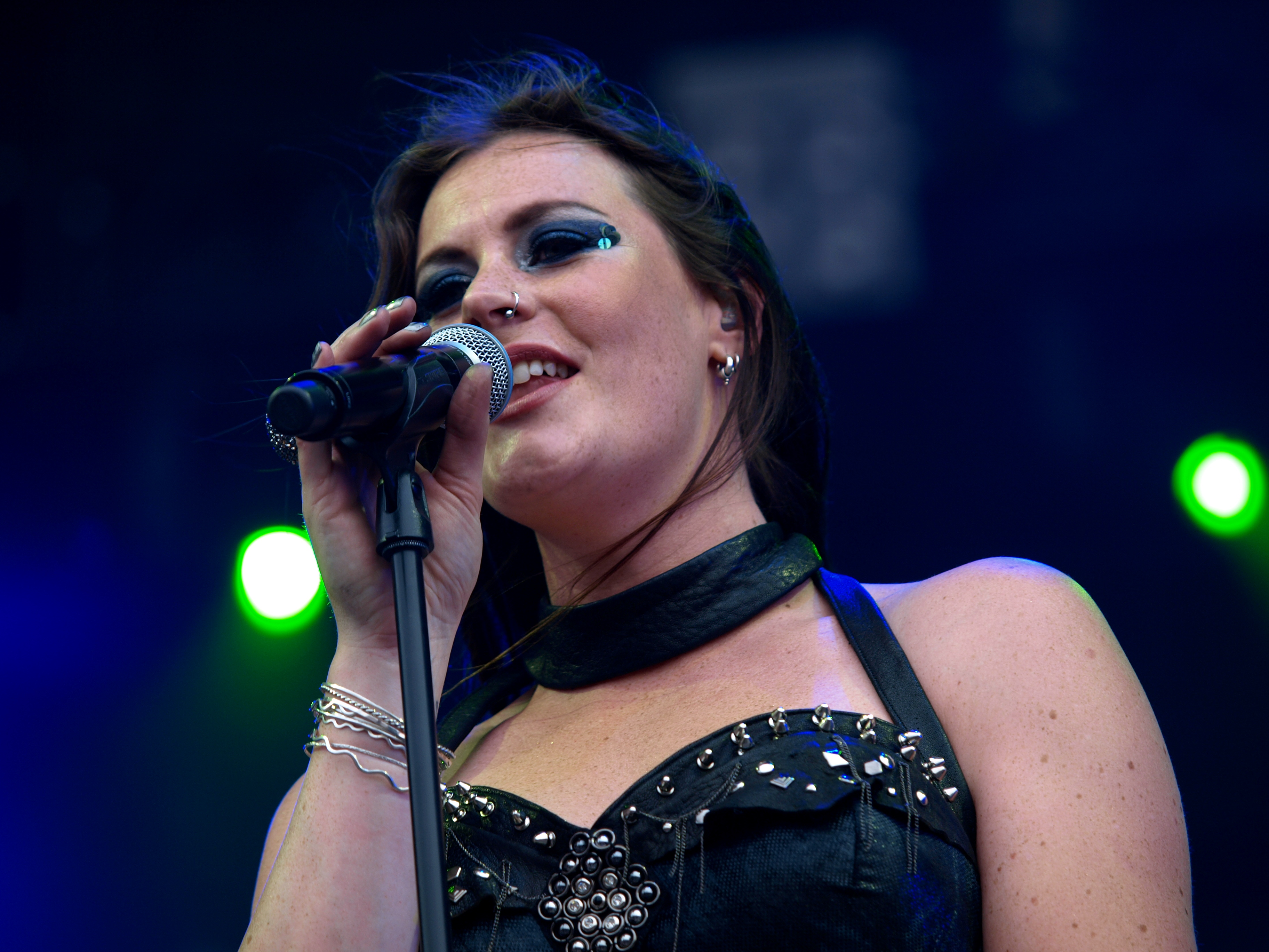 Finnish band Nightwish at Tuska Open Air 2013